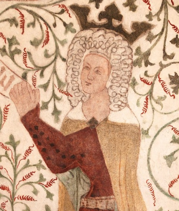 Queen Haelwig of Denmark (Helvig af Slesvig) shown on 14th century fresco in Næstved's Saint Peter's Church (Sankt Peders Kirke). The fresco was created shortly after the king's death, and rediscovered in the late 19th century.